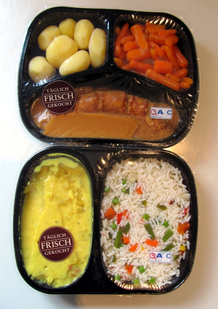 convenience food of Aldi north, Germany (2016)